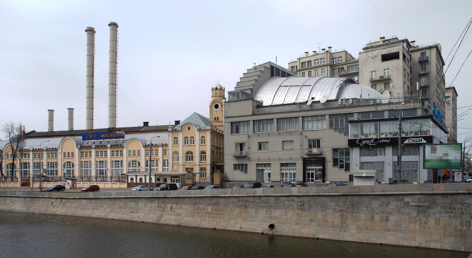 Old powerplant on Bolotnaya Embankment, Moscow.